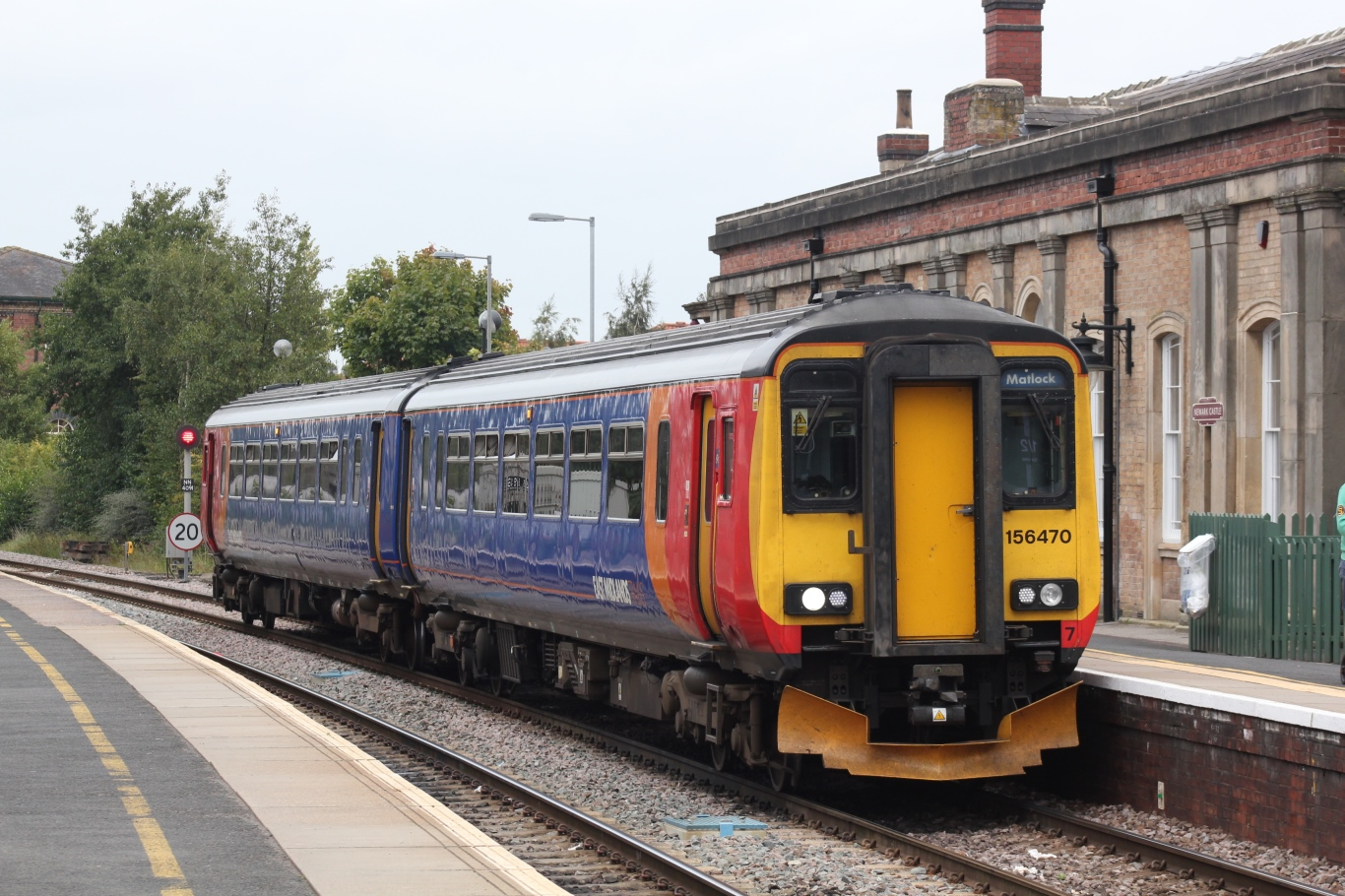 An East Midlands Trains service to Matlock prepares to start its journey from Newarl Castle station. It is formed by unit 156470.